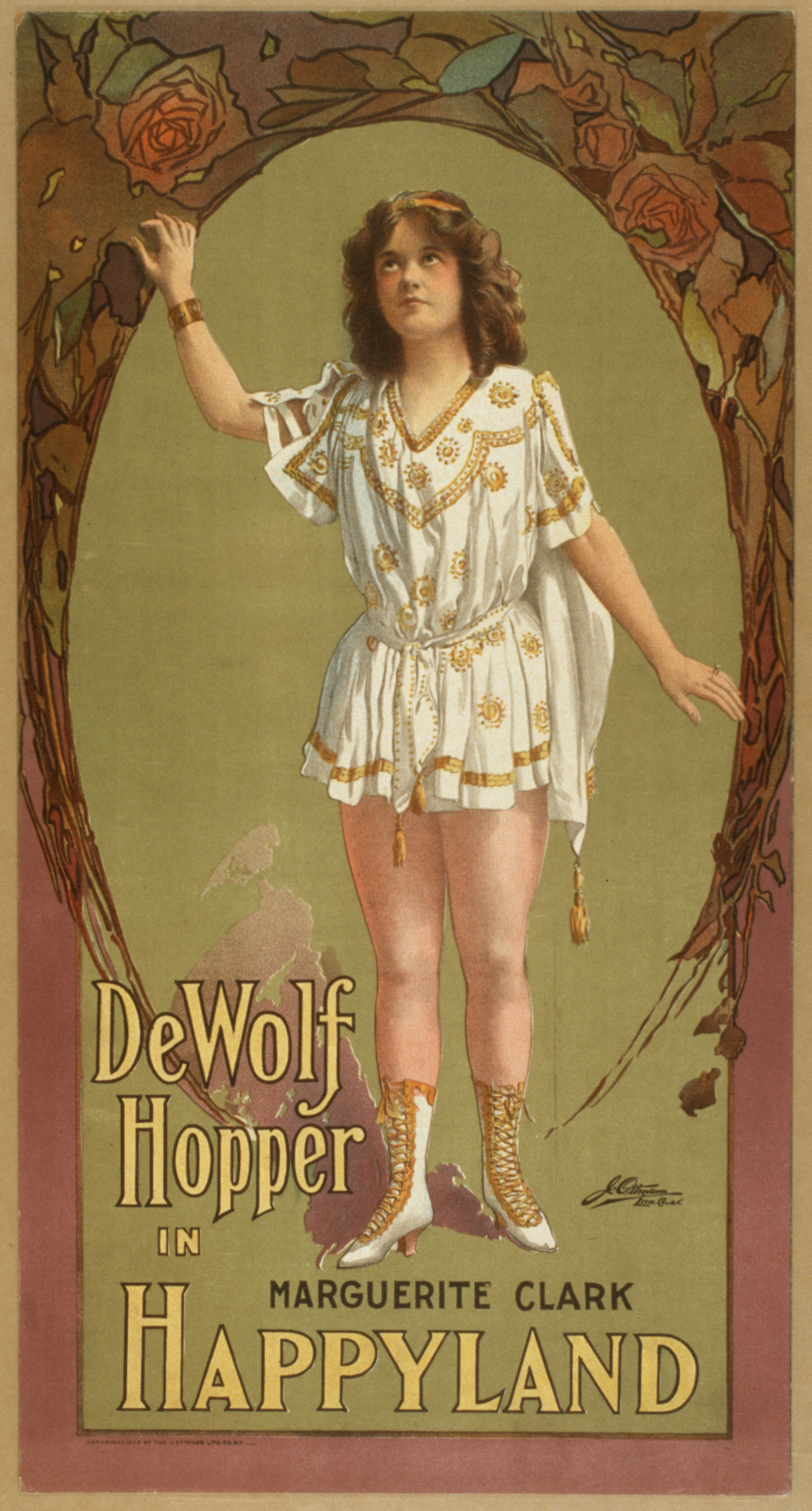 Lithograph of actress Marguerite Clark. standing, looking up, wearing a short skirted dress of white with gold trim and matching boots. Caption: "De Wolf Hopper in Happyland" Notes: "Happyland" was a Broadway show which ran October 1905 - June 1906. De Wolf Hopper was male star.